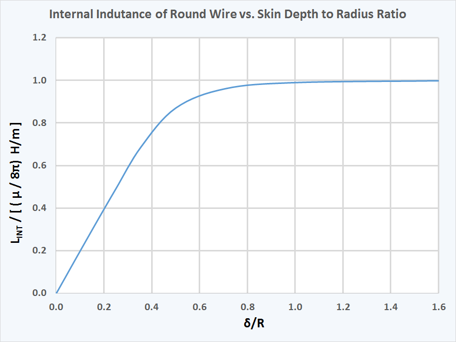 The internal inductance of round wire vs. the ratio of skin depth to radius. The inductance asymptotically approaches (μ / 8π) H/m for large skin depth. The internal inductance is associated with the magnetic field inside the wire. As skin depth becomes small, the inductance goes linearly to zero.